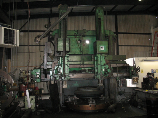 88" CNC VTL Brand name: Niles